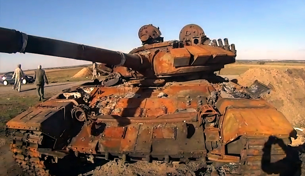 Busted T-72BA tank during August battle clashes in the War in Donbass. This is a frontal view of the tank: File:Busted T-72BA near Starobesheve in East Ukraine.jpg